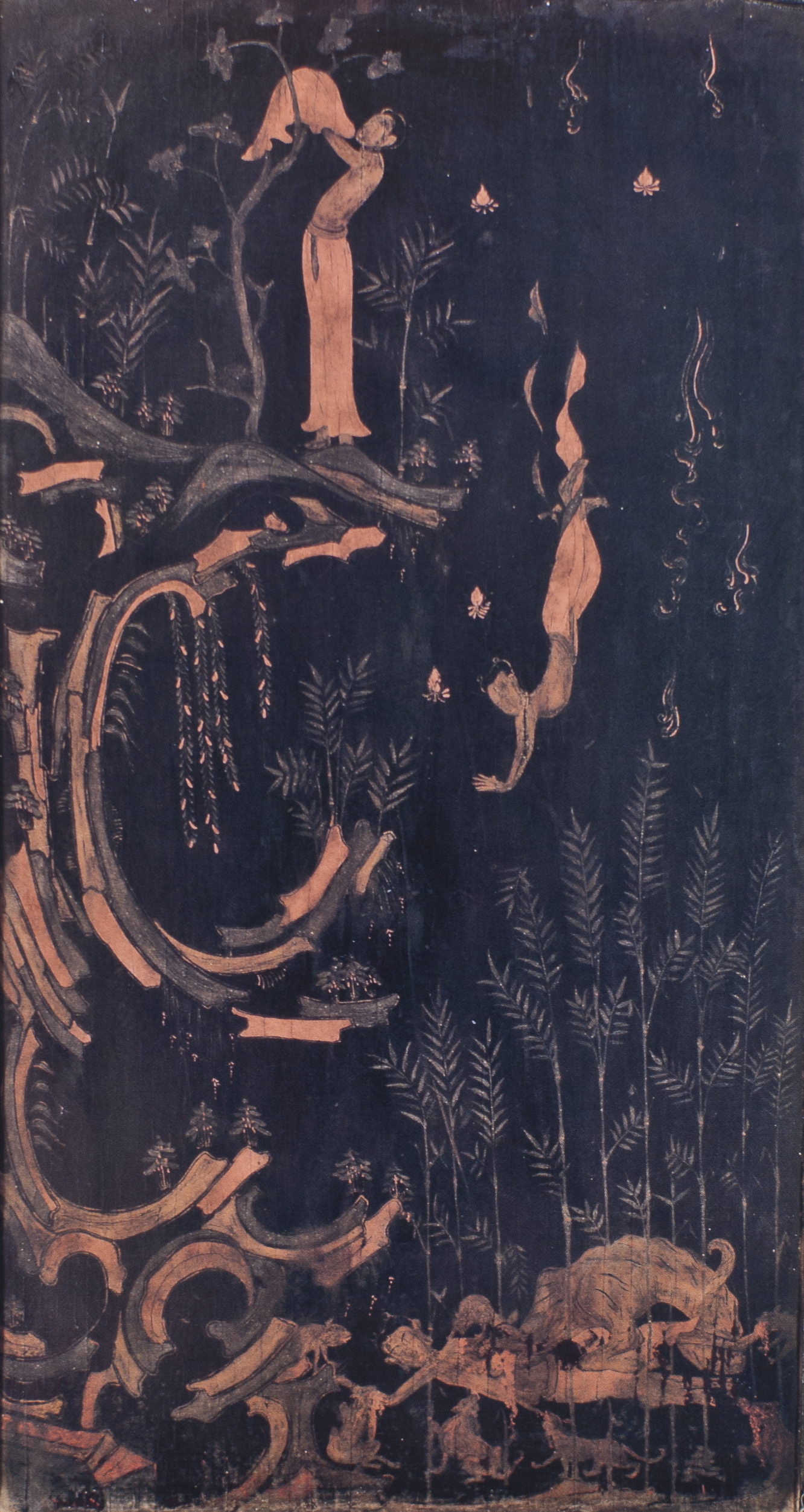 Tamamushi Shrine, Horyuji, Japan